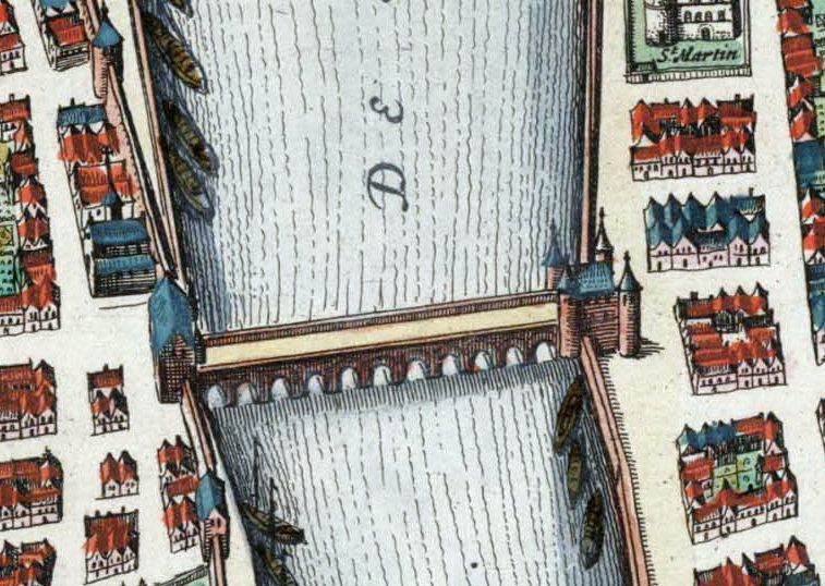 Maastricht, the Netherlands. Detail of a map of Maastricht from the Atlas van Blaeu (1652) showing the bridge over the river Maas (Meuse). The access to the bridge was guarded by two city gates: Schuttenpoort and Körverspoort (in Wyck). On the left bank: Jodenpoort (top) and Visserspoort (bottom).